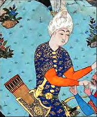 Painting of Isfandiyar in The Shahnama of Shah Tahmasp